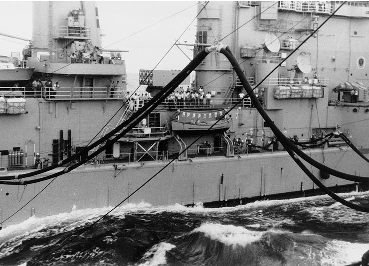 The U.S. Navy guided missile cruiser USS Columbus (CG-12) refueling from the fast combat support ship USS Seattle (AOE-3), in November 1970. Note Columbus' name spelled out on a line above the 26-foot motor whaleboat, amidships, with the ship's band playing on the deck above.